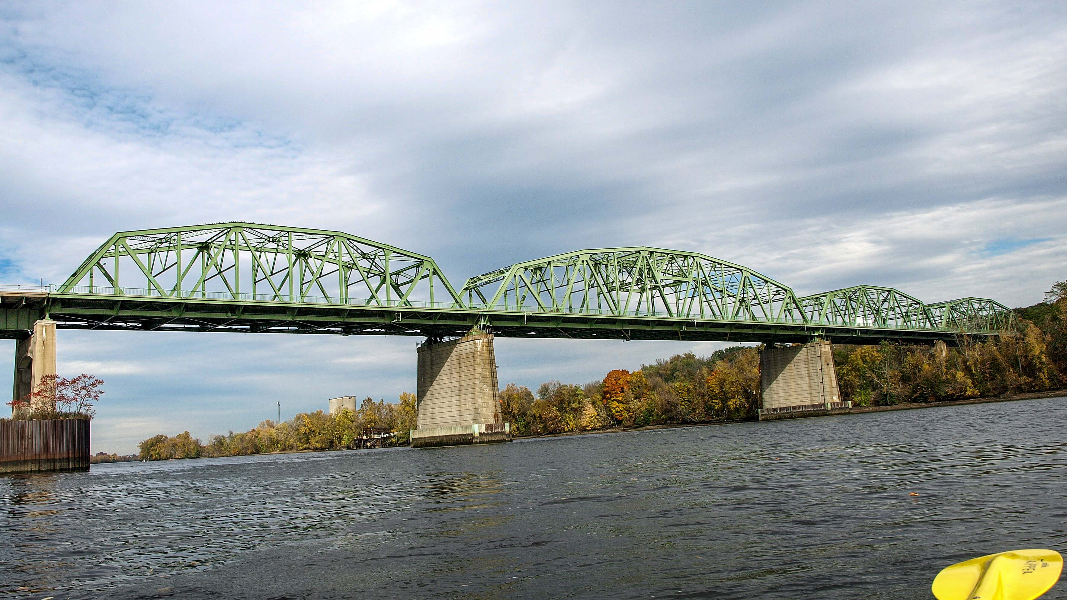 Menands Bridge over the Hudson River, Menands - Troy, New York